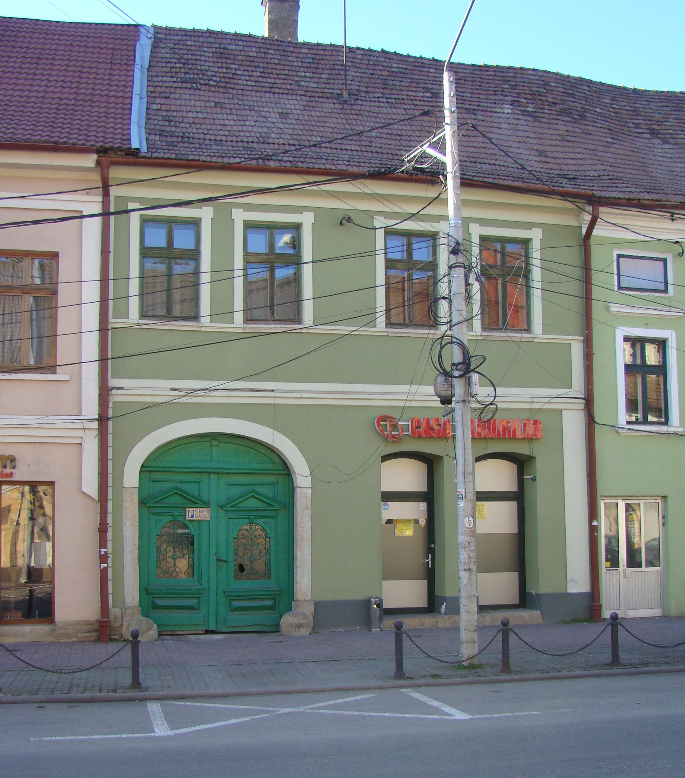 House, historic monument, in Bistriţa, Dornei street, number 19